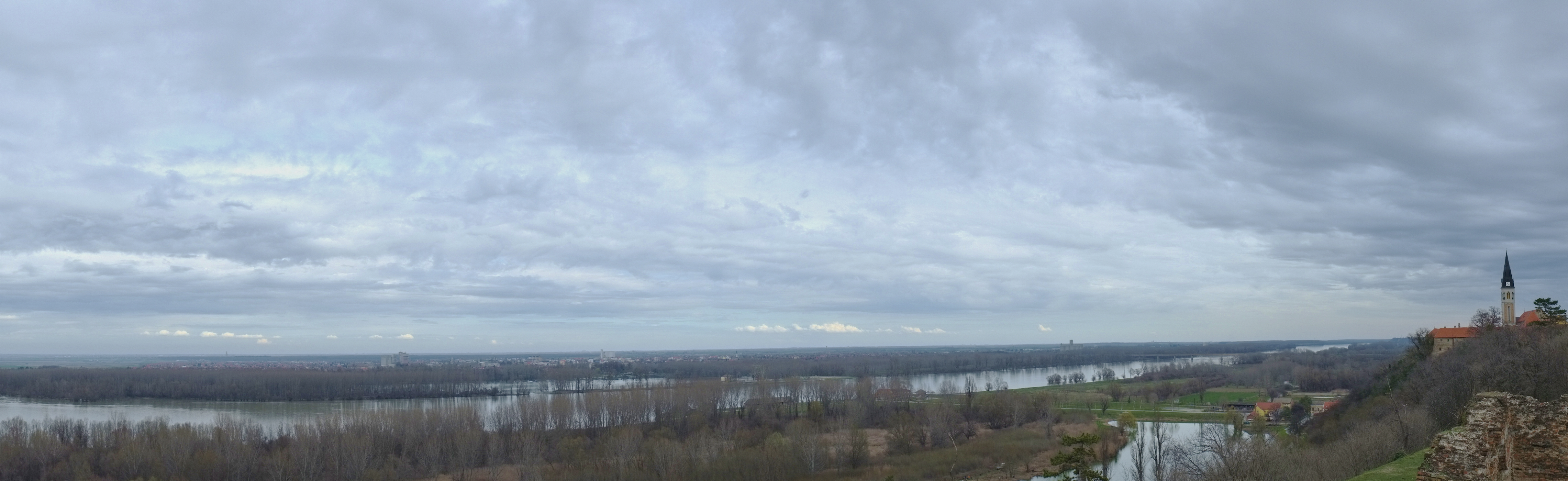 Pogled na Dunav